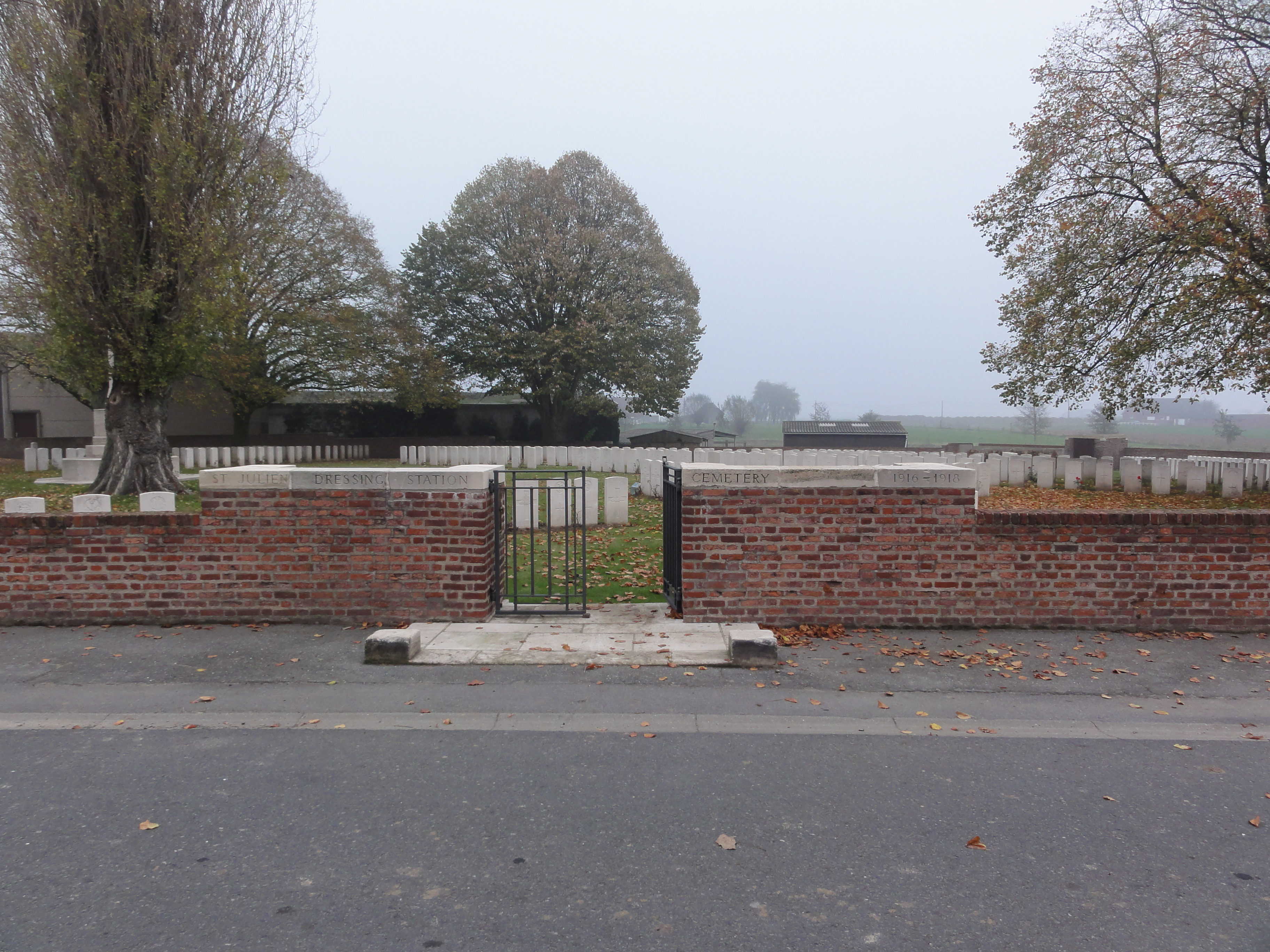 St. Julien Dressing Station Cemetery in Sint-Juliaan. Sint-Juliaan, Langemark, Langemark-Poelkapelle, West Flanders, Belgium